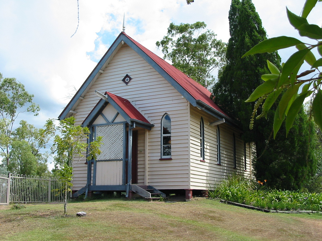 Chapel Hill Uniting Church, Brisbane, formerly known as Indooroopilly Primitive Methodist Church